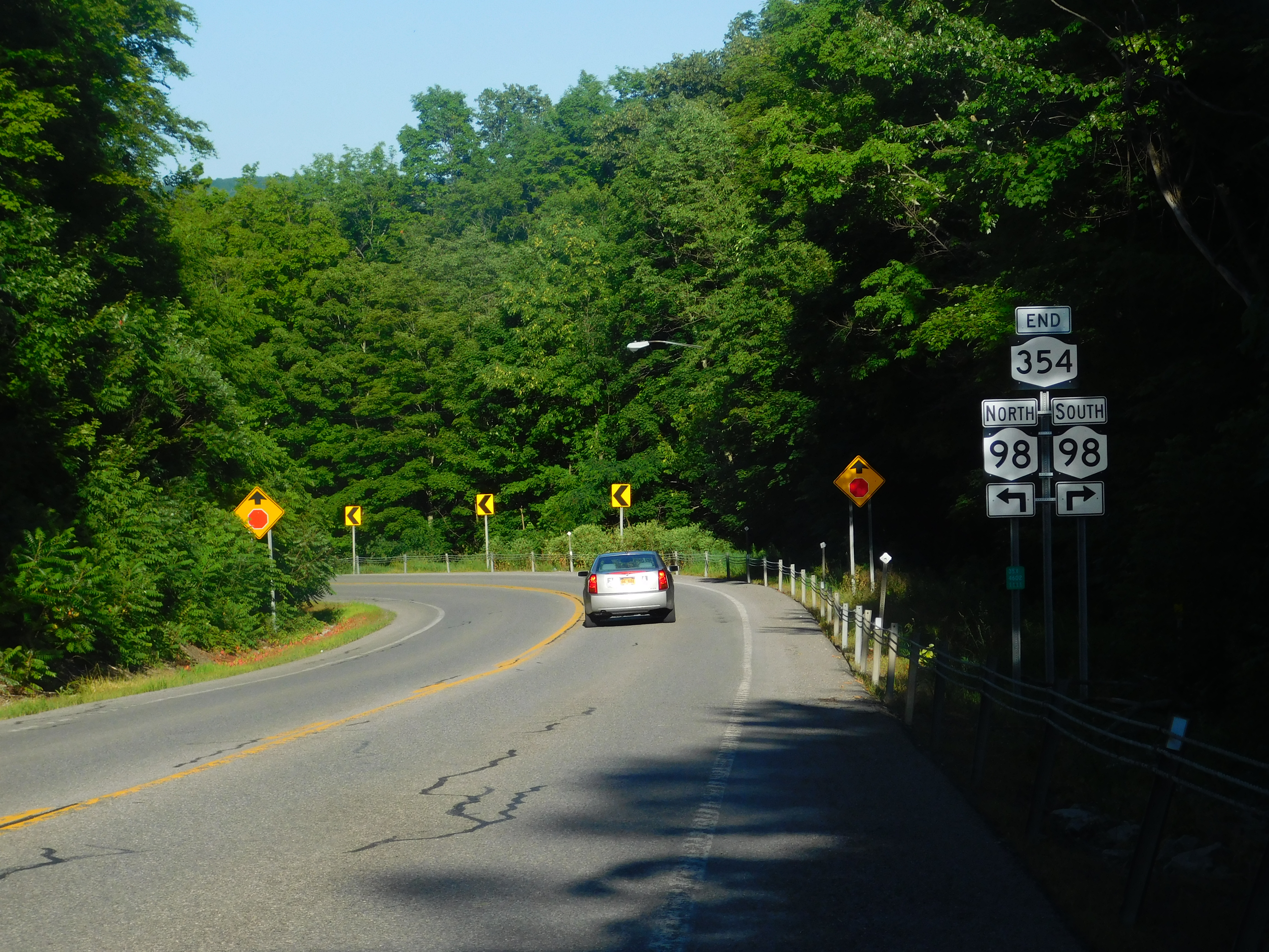 NY 354 eastbound in Attica village, New York.